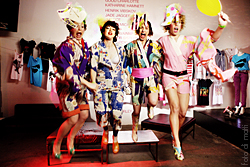 Portrait of the music band Chicks On Speed, photographed by Matti Hillig. The photo was taken in Berlin on February 7, 2008. Chicks On Speed is a multi-national musical and fine art ensemble, formed in Munich in 1997, when members Melissa Logan and Alex Murray-Leslie met at the Academy of Fine Arts. Their musical style is called electroclash. High-resolution versions of this and more photos are available. Please contact me